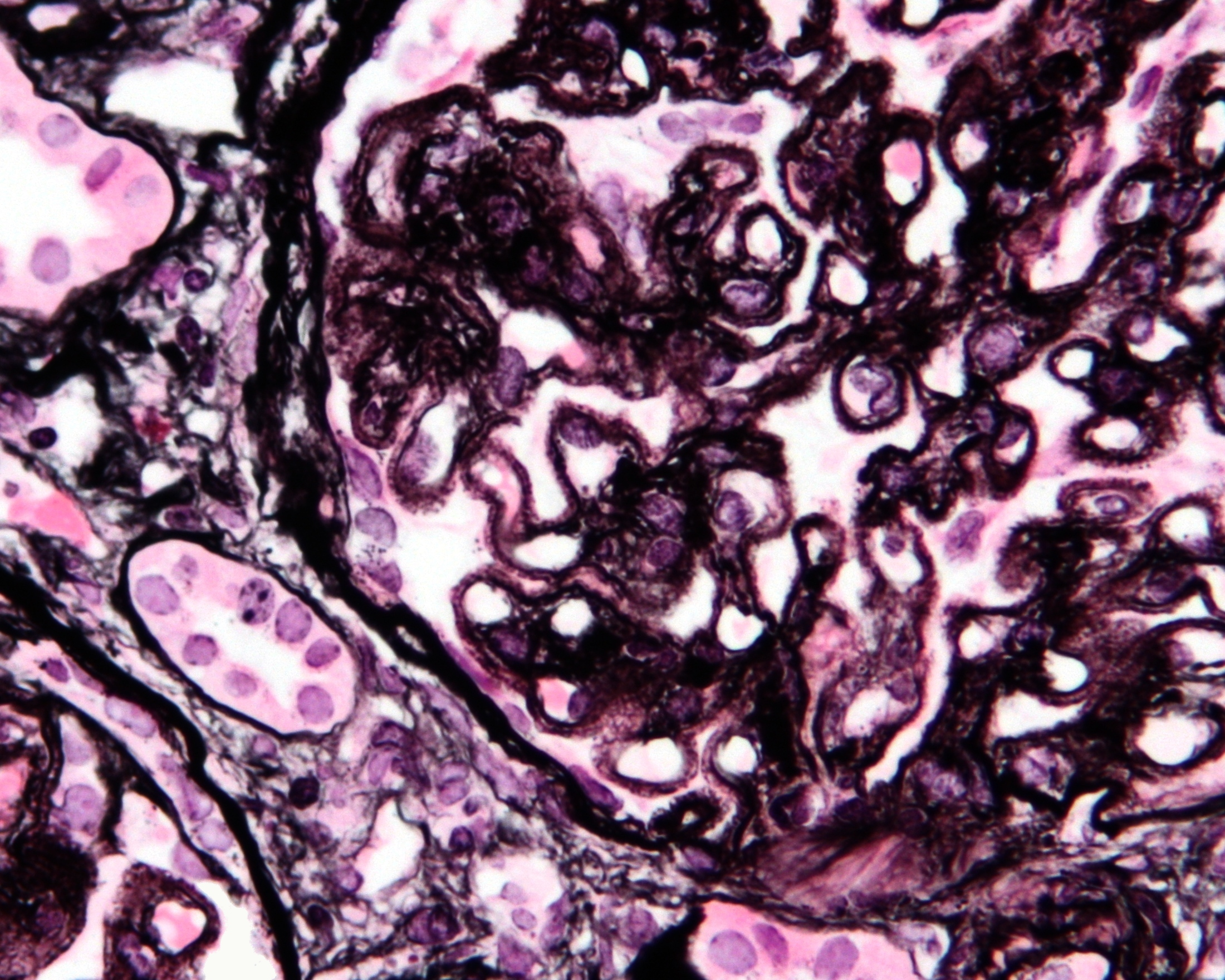 Very high magnification micrograph of membranous nephropathy, abbreviated MN. MN may also be referred to as membranous glomerulonephritis, abbreviated MGN. Kidney biopsy. Jones stain. The characteristic feature on light microscopy is basement membrane thickening/spike formation, which is best seen with silver stains. On electron microscopy, subepithelial deposits are seen. Related images Intermed. mag. MPAS. High mag. MPAS. Very high mag. MPAS. Very high mag. MPAS. Very high mag. MPAS. (cropped) High mag. HE. Very high mag. HE. Very high mag. PAS.